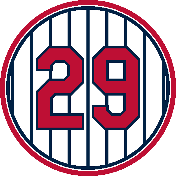 The number "29", retired for Rod Carew by the Minnesota Twins.